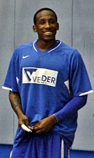 Basketball player